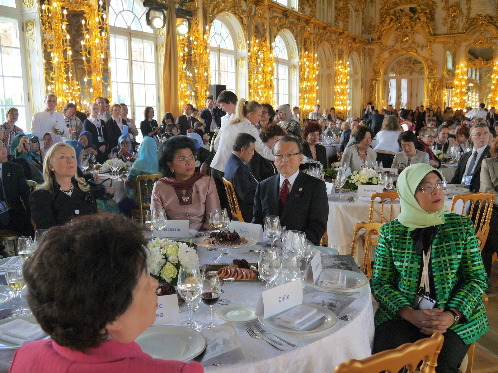 The opening reception, of the Asia-Pacific Economic Cooperation (APEC) Women and the Economy Forum 2012 at Catherine Palace, Pushkin, Saint Petersburg, Russia. (Clockwise from left): The Honorable Hillary Rodham Clinton, Secretary of State, United States of America; Mrs. Linda Amalia Sari Gumelar, Minister for Women’s Empowerment and Child Protection, Indonesia; Mr. Masaharu Nakagawa, Minister of State for Disaster Management, New Public Commons, Gender Equality and Civil Service Reform, Japan; Mdm. Halimah Yacob, Minister of State for Community Development, Youth and Sports, Singapore; and Ms. Kim Kum Lae, Minister of Gender Equality & Family, Republic of Korea (back to camera).